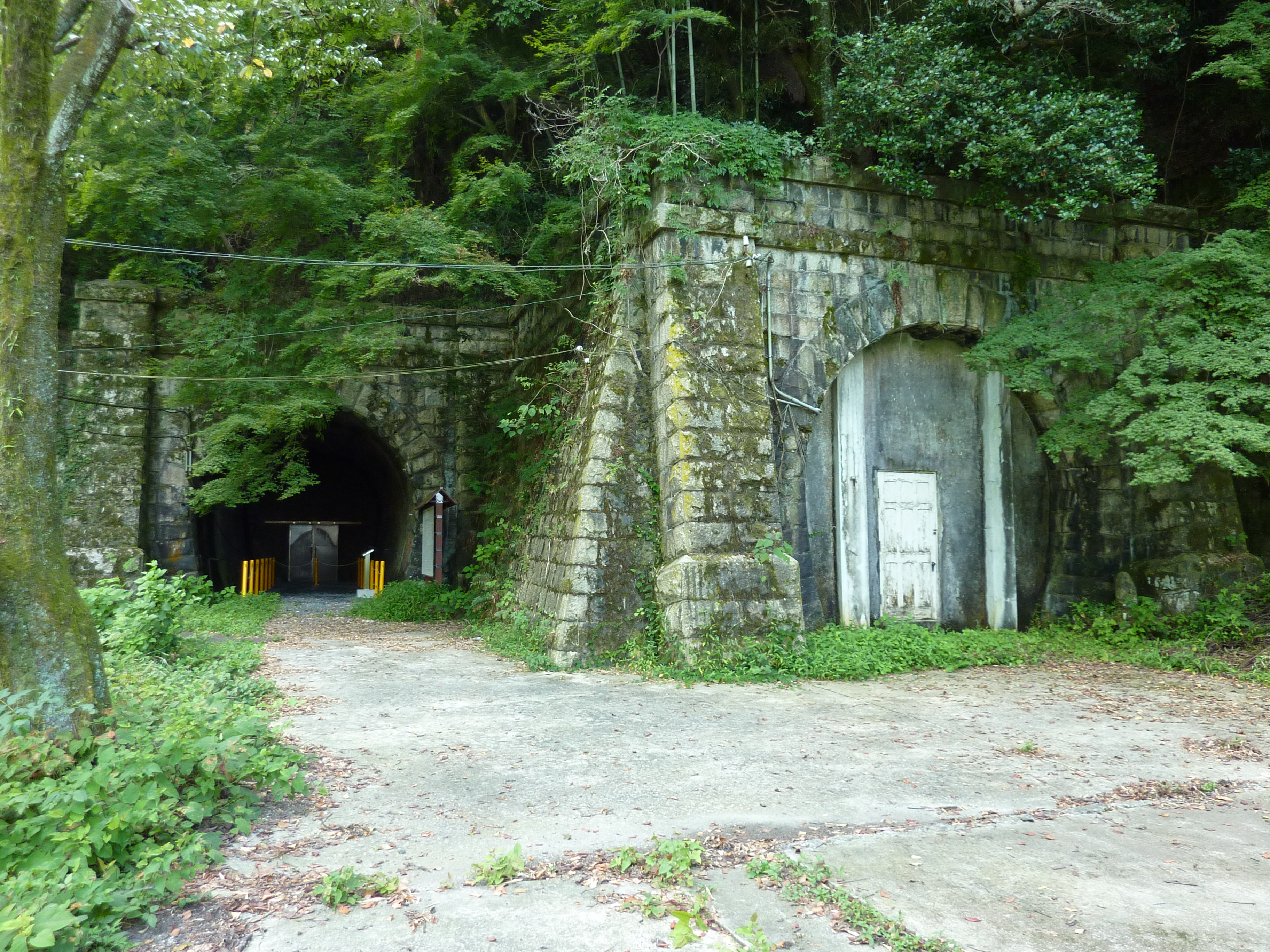 Former Osakayama Tunnel (Toukaido Main Line) East Gate